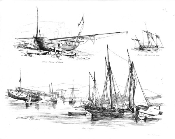 Fishing Boat from Etretat - Ship from Etretat under sail - small lugger